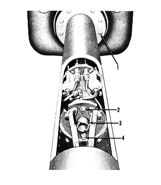 M7-6 flame thrower gun of a M67 tank